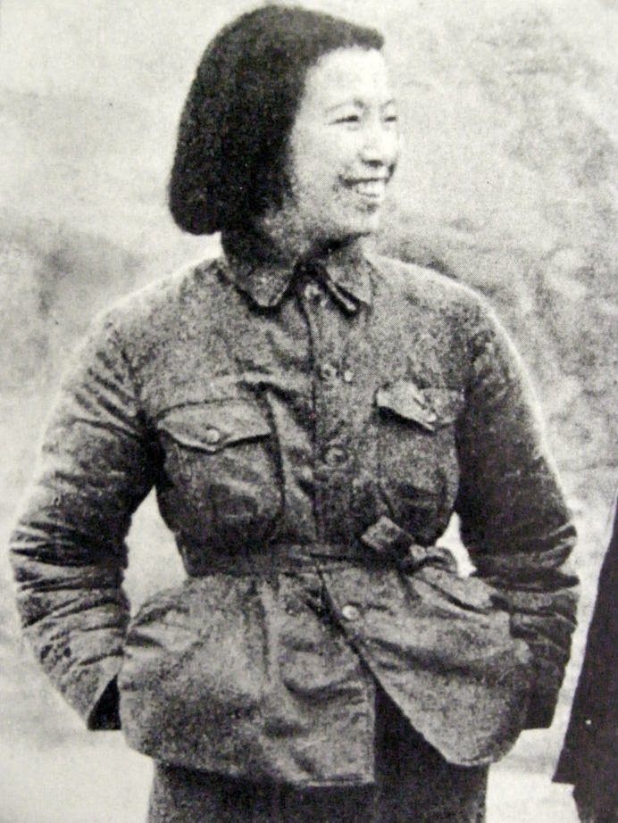 Jiang Qing 江青 , wife of Mao Zedong, in Yanan, probably winter 1940-1941. Conjectural, but was identified as Jiang Qing by a Chinese friend